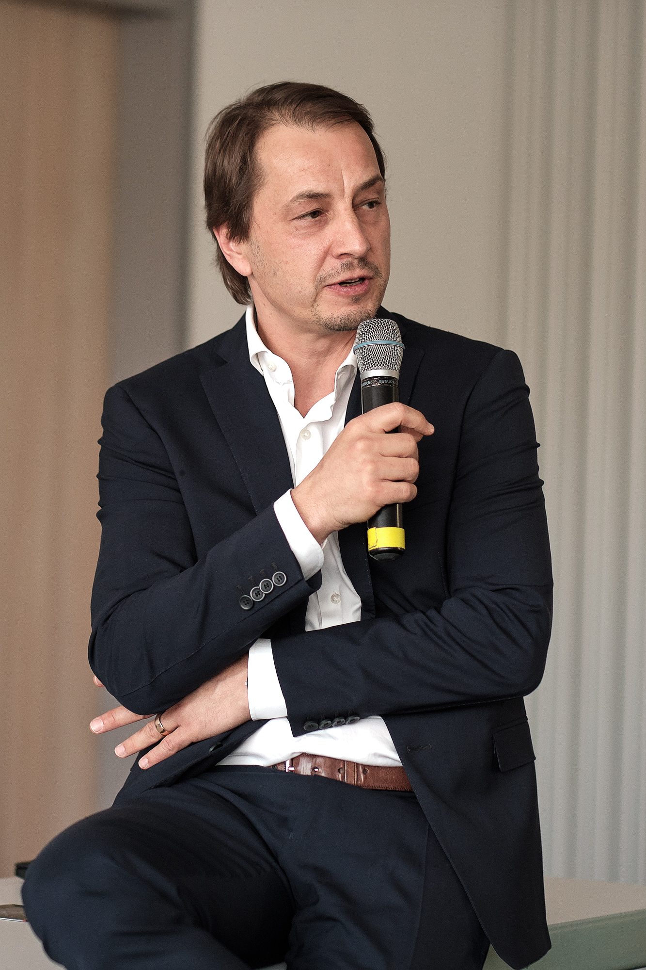 Ophtalmologist Prof. Dr. Peter Szurman during a conference, eye clinic Sulzbach, Germany